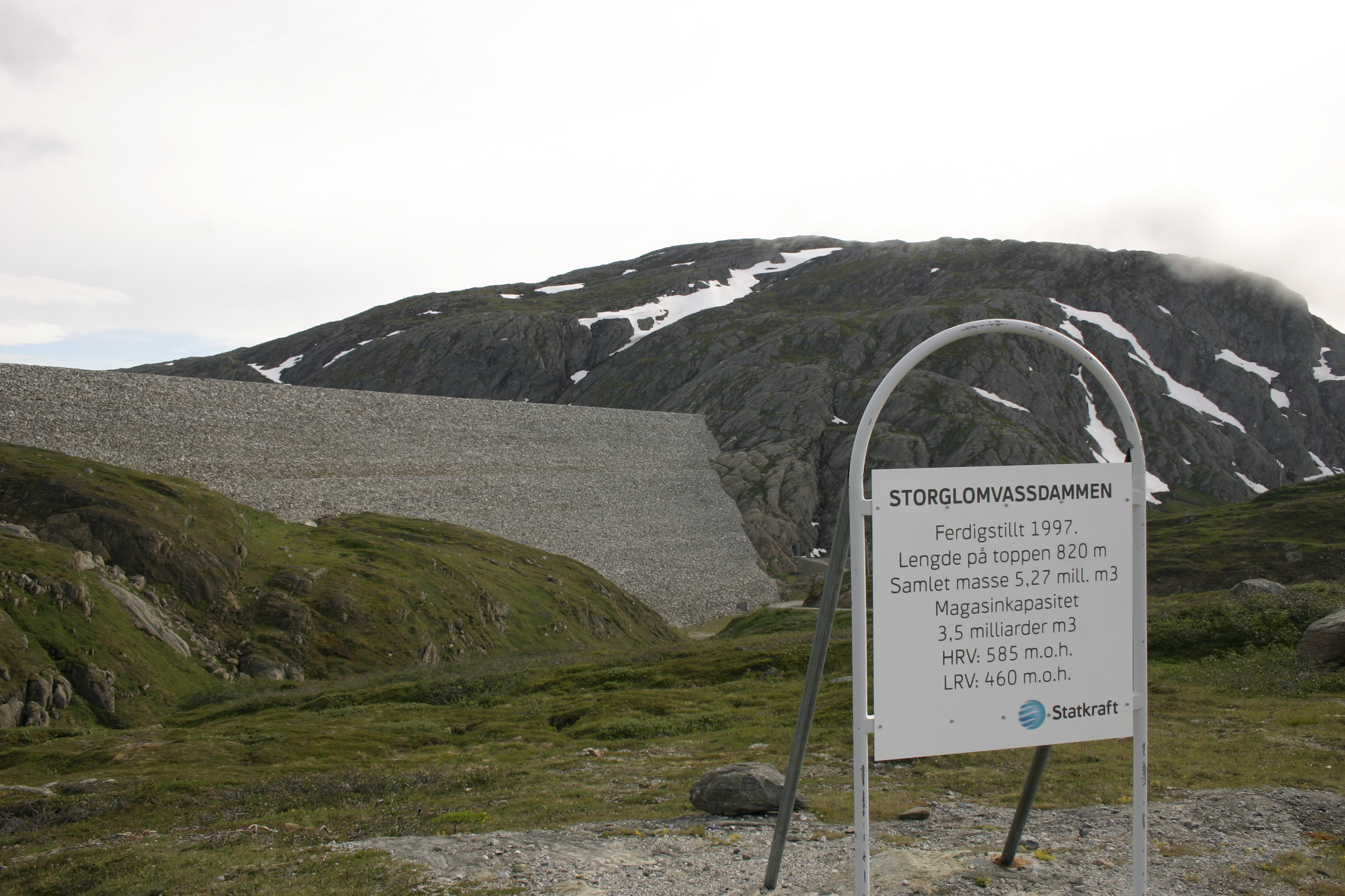 Storglomvassdammen dam by Storglomvatnet, Norway. The photo was taken in the evening of July 18th, 2008.